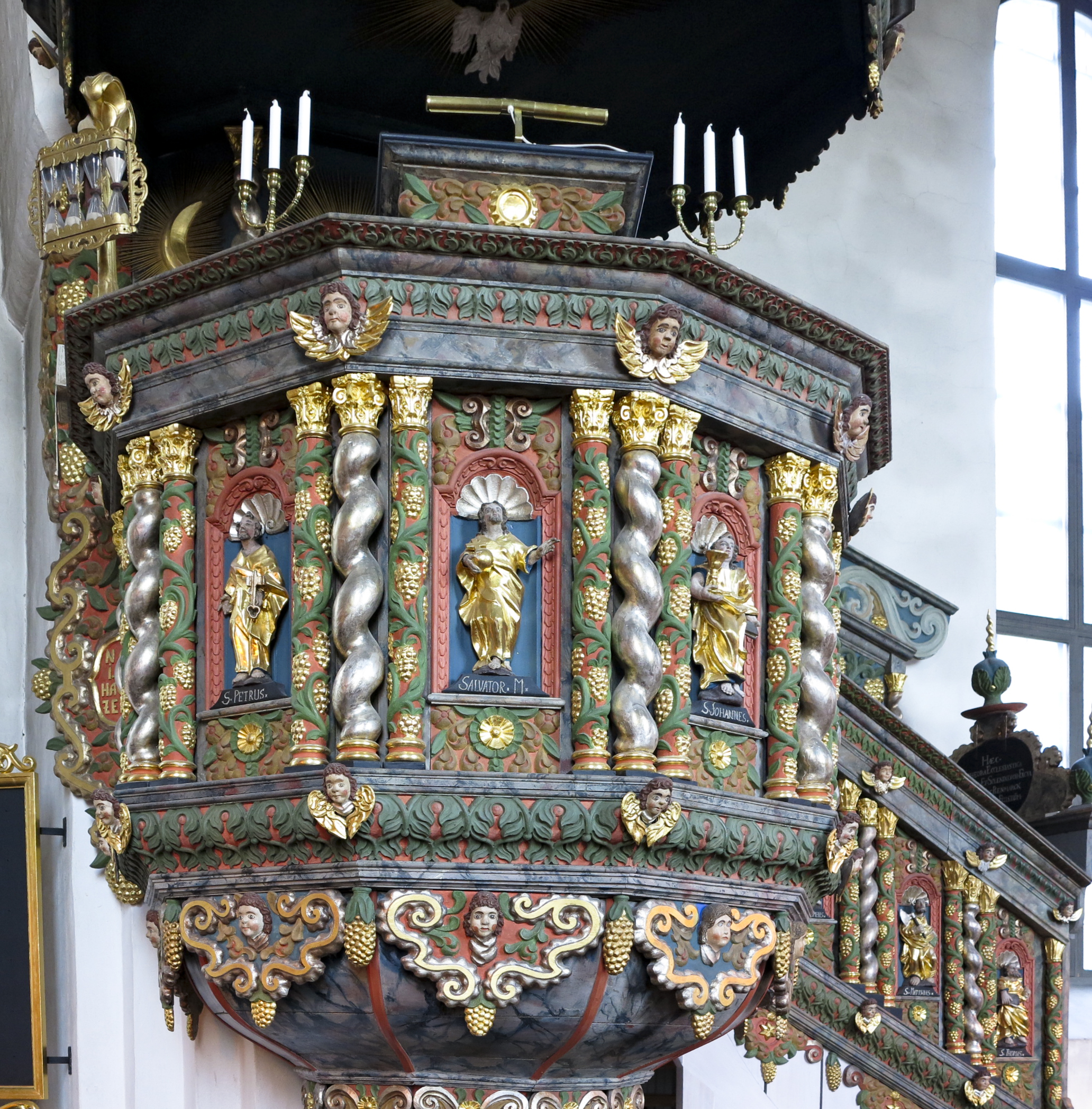 Nederluleå church, Luleå, Sweden. Pulpit, detail